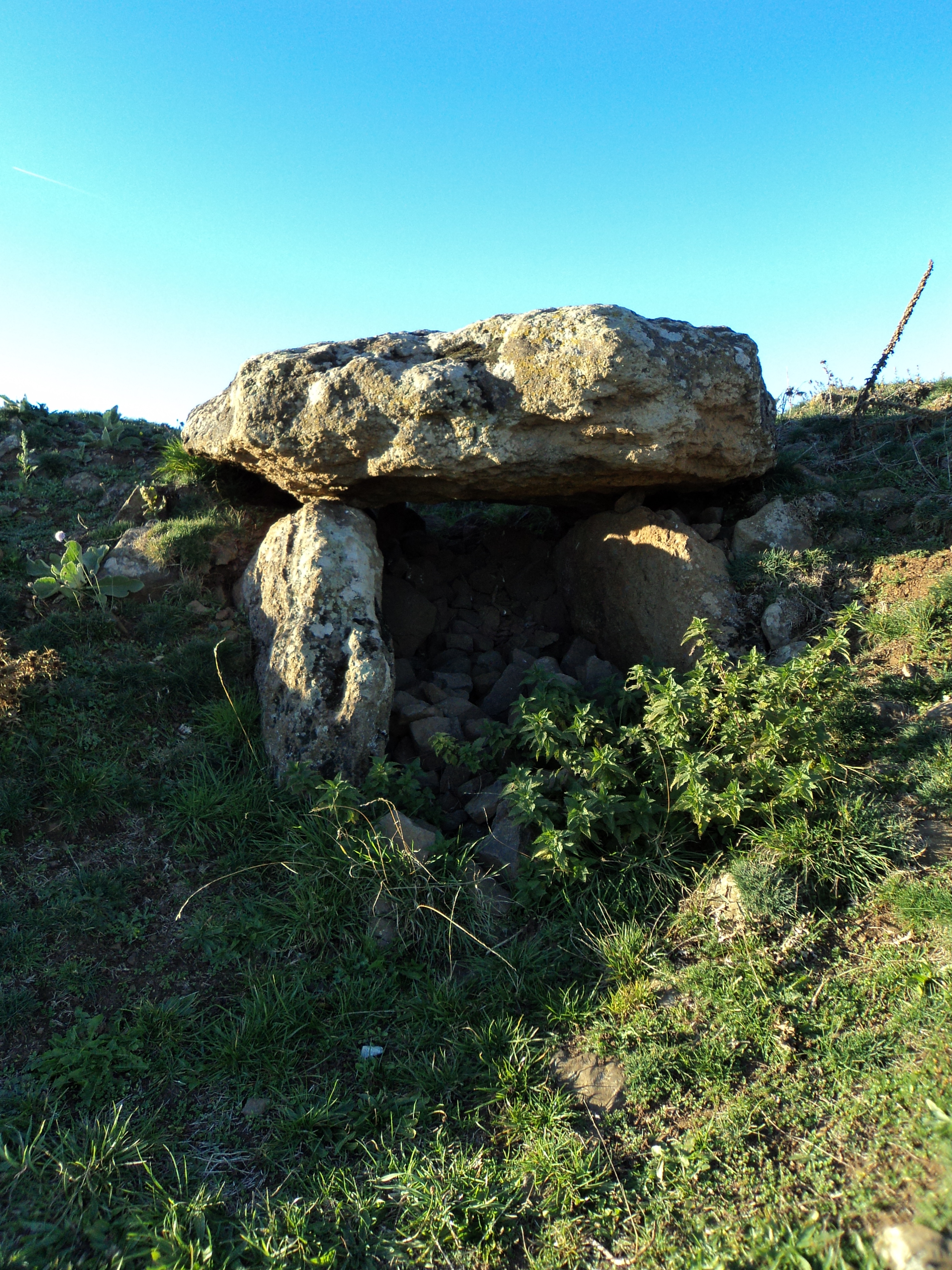 Object location45° 02′ 35.88″ N, 3° 06′ 54.36″ E